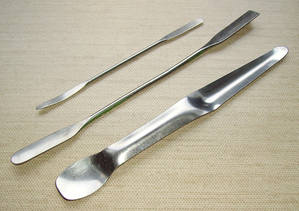 Laboratory double spatulas in stainless steel to take a solid (e.g. powder). Two flat spatulas and a spoon spatula.